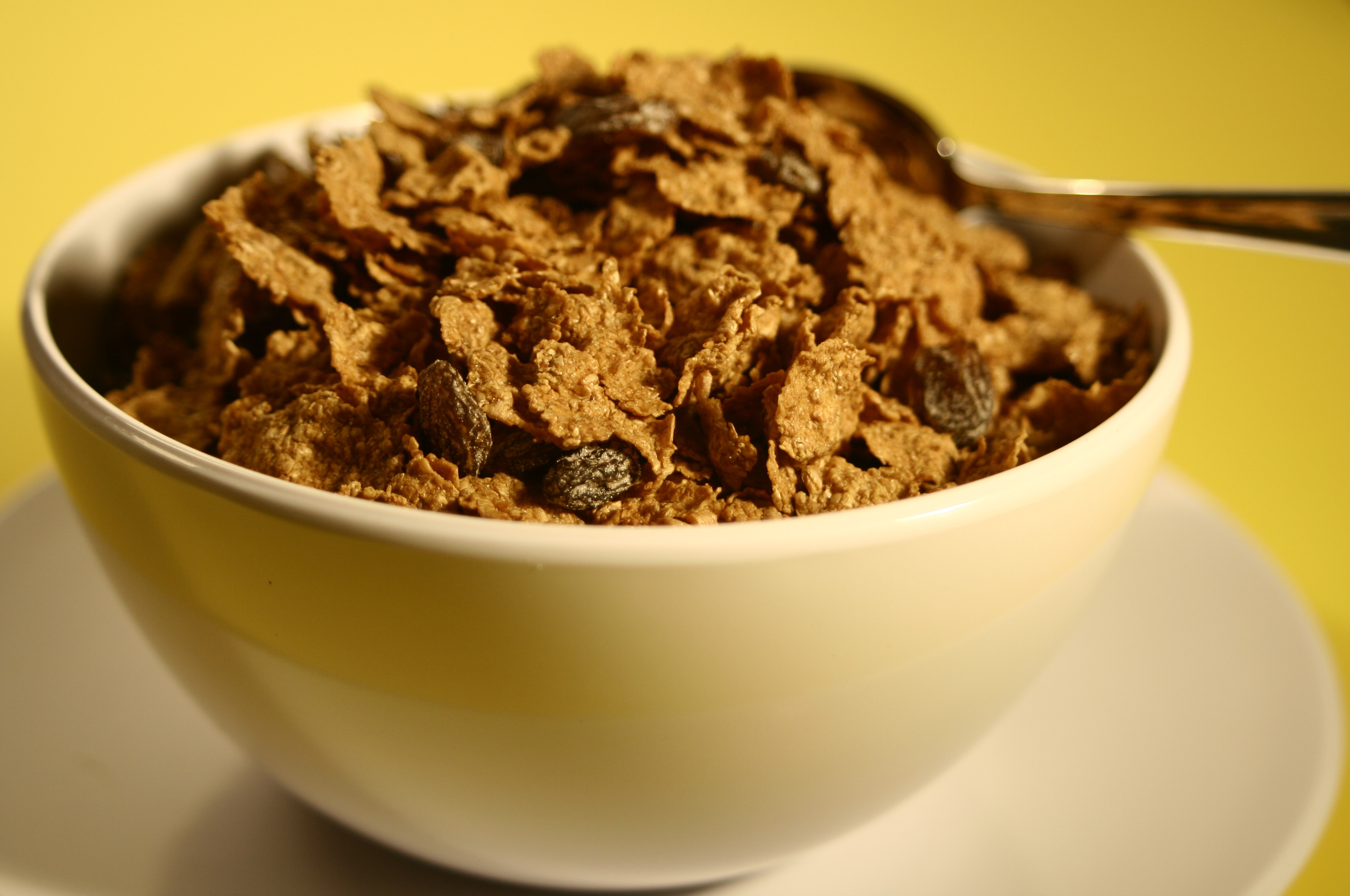 Oatmeal Crisp